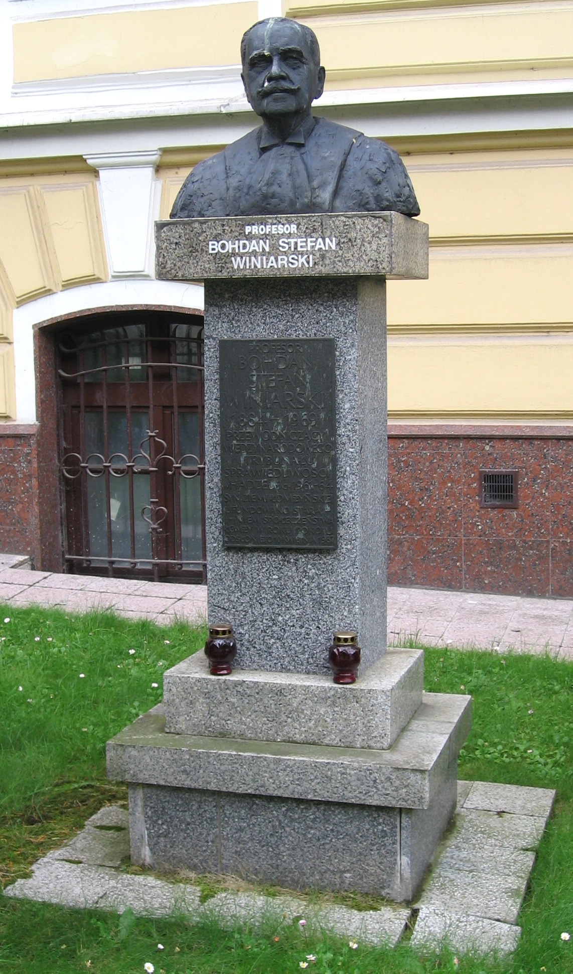 Monument of Bohdan Stefan Winiarski in Łomża Annotation on the monument: Professor BOHDAN STEFAN WINIARSKI 1884-1969. The chairman of International Court of Justice in the Hague from 1961 to 1964; son of Łomża Land (Founded by society of Łomża City in the year of peace. Exposed on April 10th 1987.)